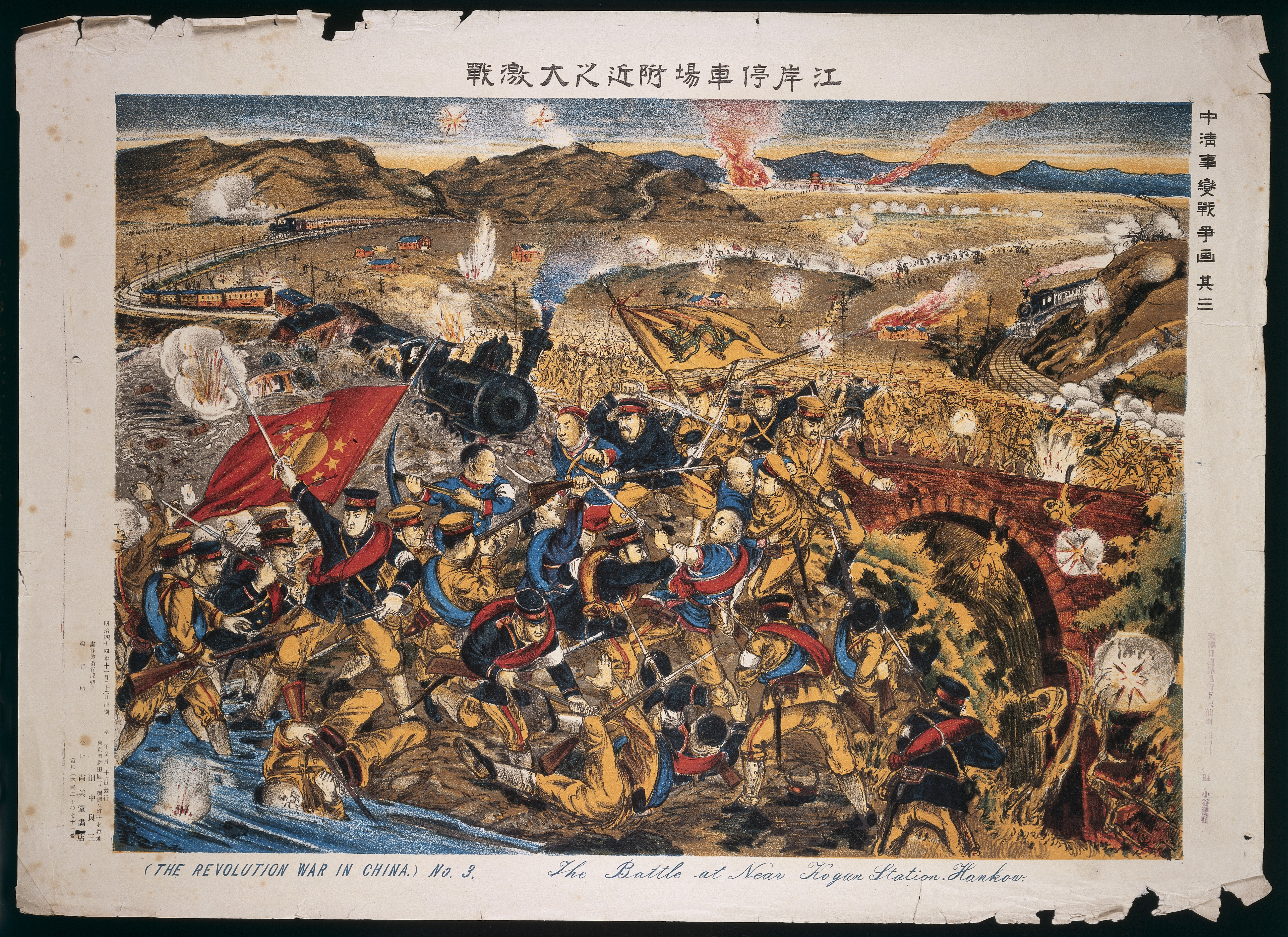 An episode in the revolutionary war in China, 1911: the battle at Hankow. Iconographic Collections Keywords: Revolution; Chinese Revolution; Military History; Fighting; China; Battles; T. Miyano; Xinhai Revolution; Manchu (Qing) Dynasty